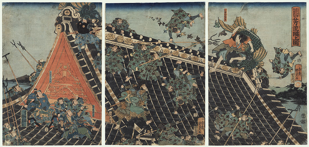 An Edo period wood block print of the samurai Inuzuka Shino battling Inukai Kempachi and his men on the roof of the Horyukaku, a tower of Koga Castle. This scene illustrates a popular episode from the Edo era novel "Tale of the Eight Dog Warriors of Satomi." Backed against a large fish ornament, Inuzuka Shino fights valiantly, sending his opponents tumbling through the air and sliding down the tiled rooftop. An enemy climbs over the roof below him, a truncheon clenched between his teeth, as a cloud of frightened birds takes wing. A fantastic, dramatic composition with excellent architectural detail and great expressive faces